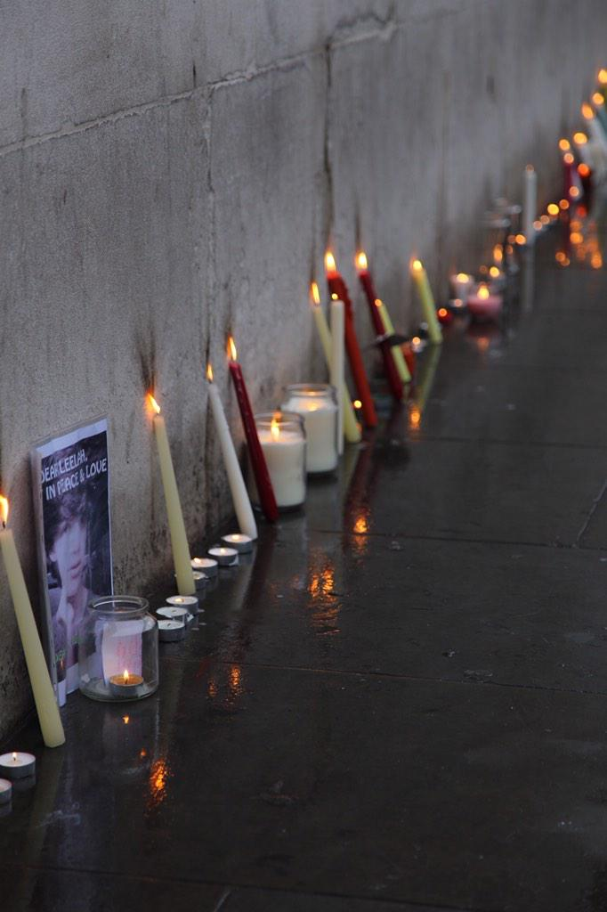 Candles placed against a wall following the Trafalgar Square vigil in memory of Leelah Alcorn